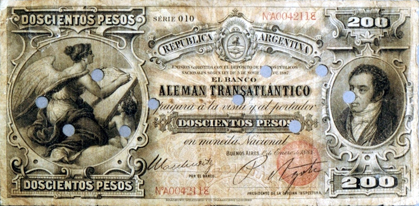 An Argentinian banknote with the sign of Georg Eduard Maschwitz.